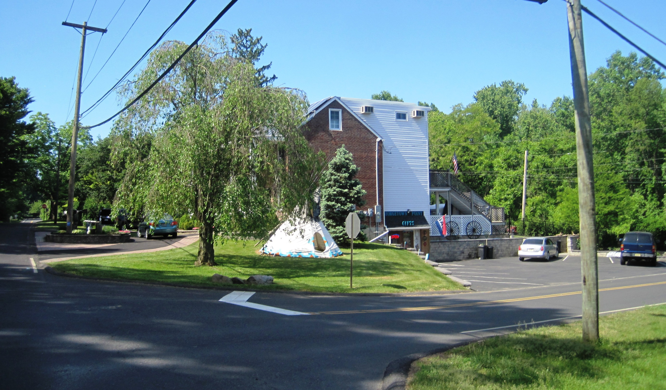 Photo of Georgetown, New Jersey, an unincorporated community within Mansfield Township. Photo taken on southbound Georgetown-Chesterfield Road at Georgetown Road.